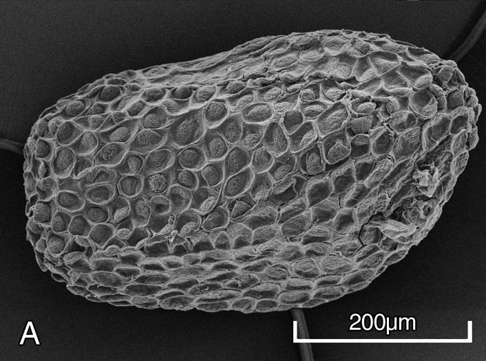 Seed of Kadua lichtlei, Wood 10514 (PTBG)